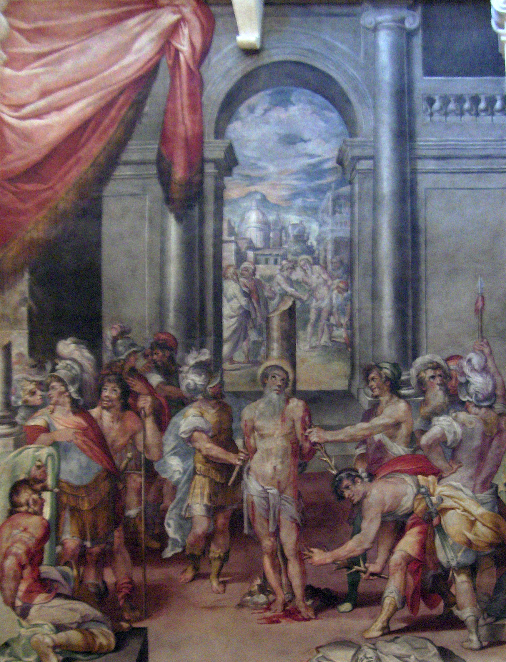 "Scene from the life of San Feliciano", fresco by Vespasiano Strada in the Cathedral of San Feliciano, Foligno, Italy